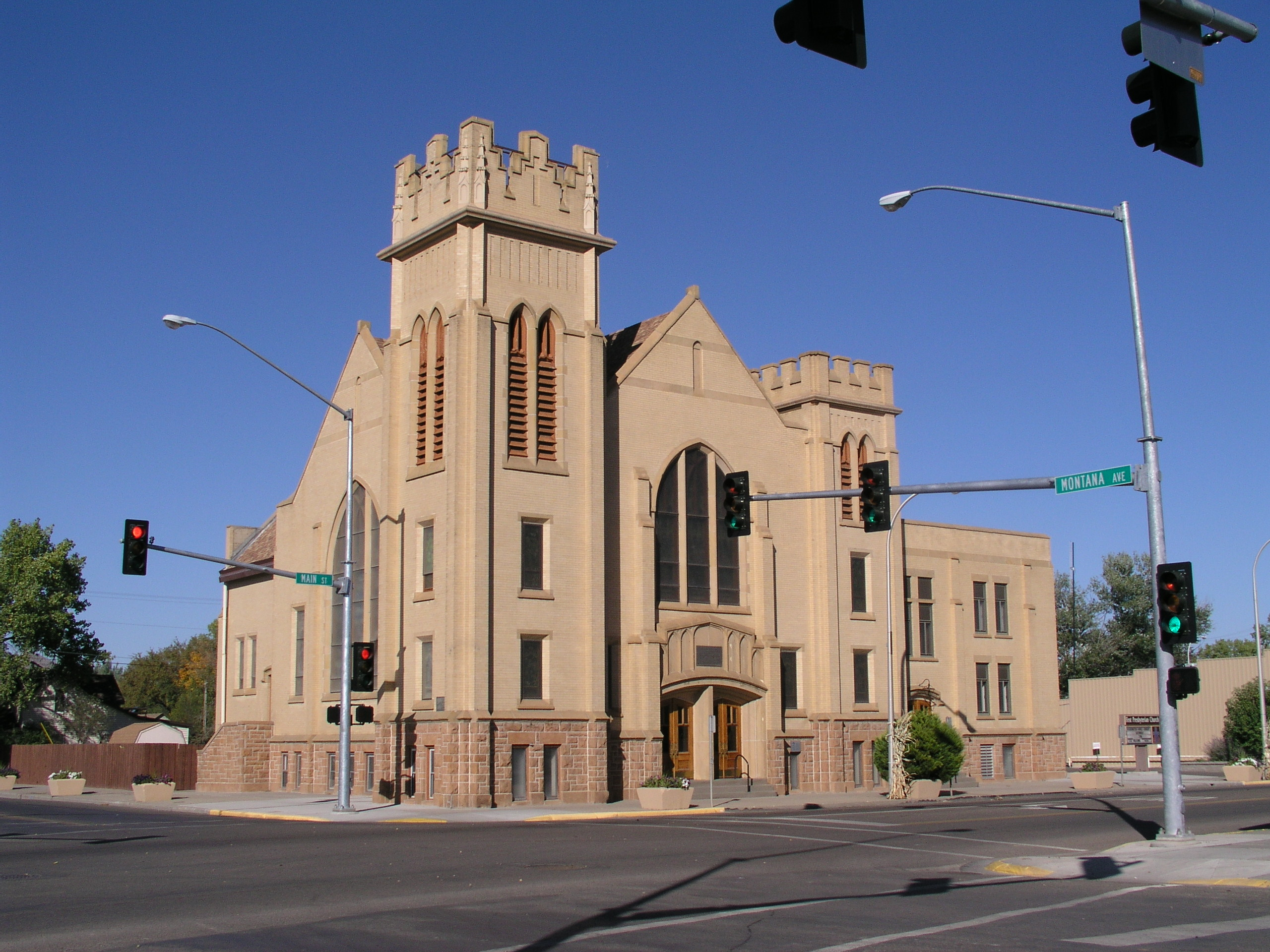 First Presbyterian Church, 1401 Main Street, Miles City, Montana.